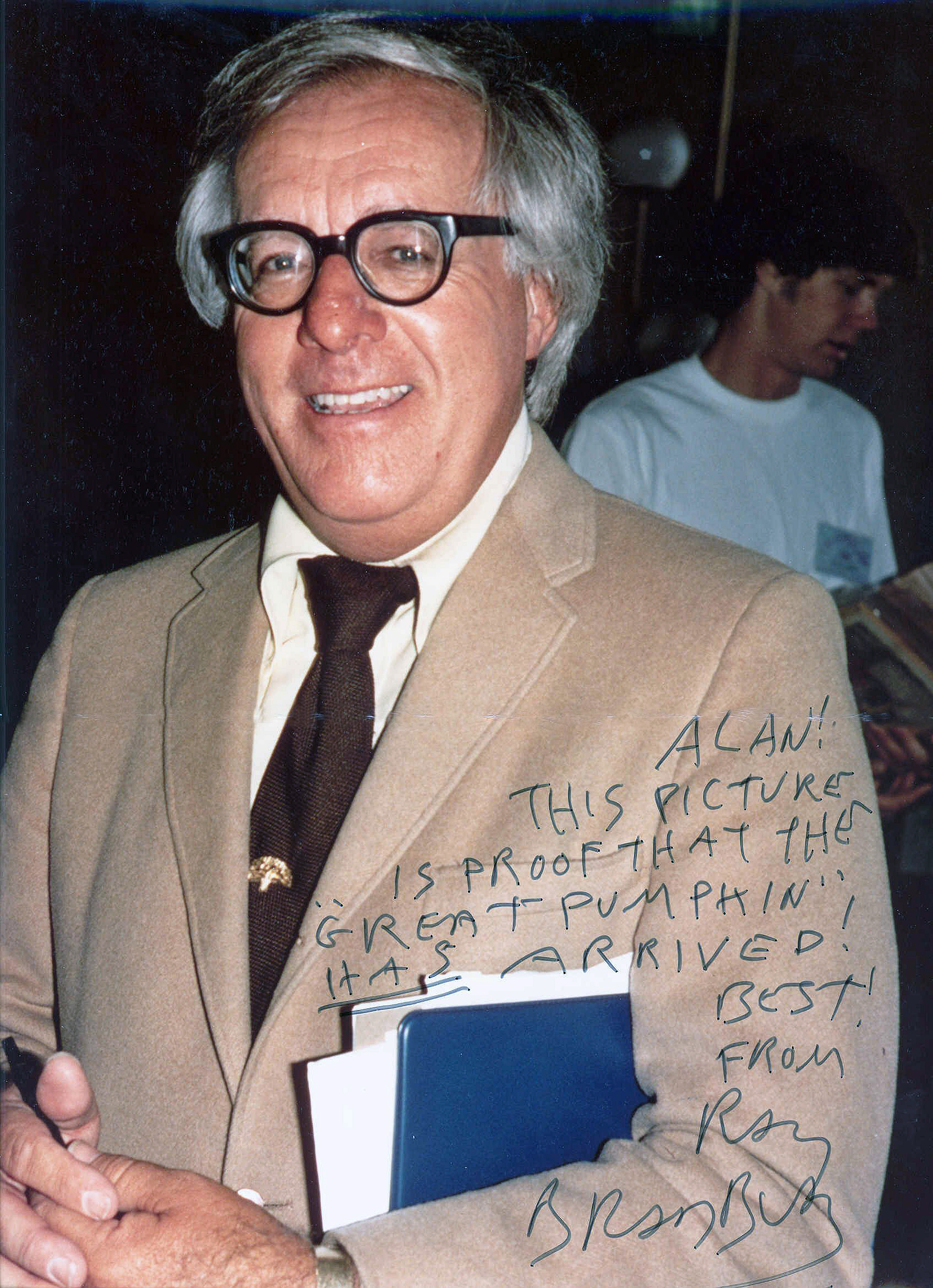 Ray Bradbury